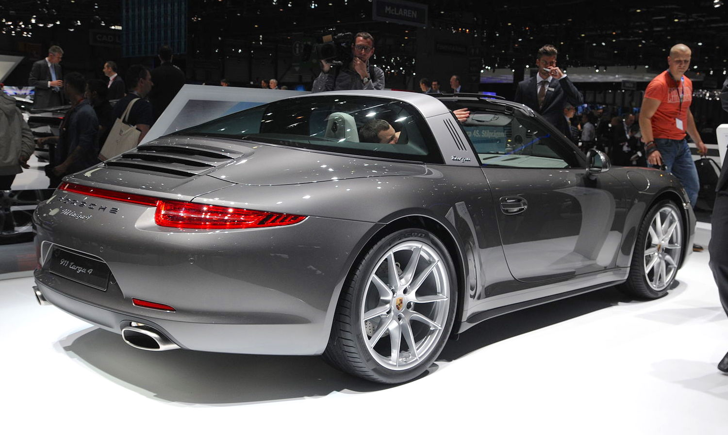 Geneva Motor Show 2014 (photo taken on the first press day)